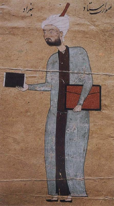 "Picture of the master Behzad". Album for Tahmasp, Istanbul University Library, F. 1422, fol. 32b